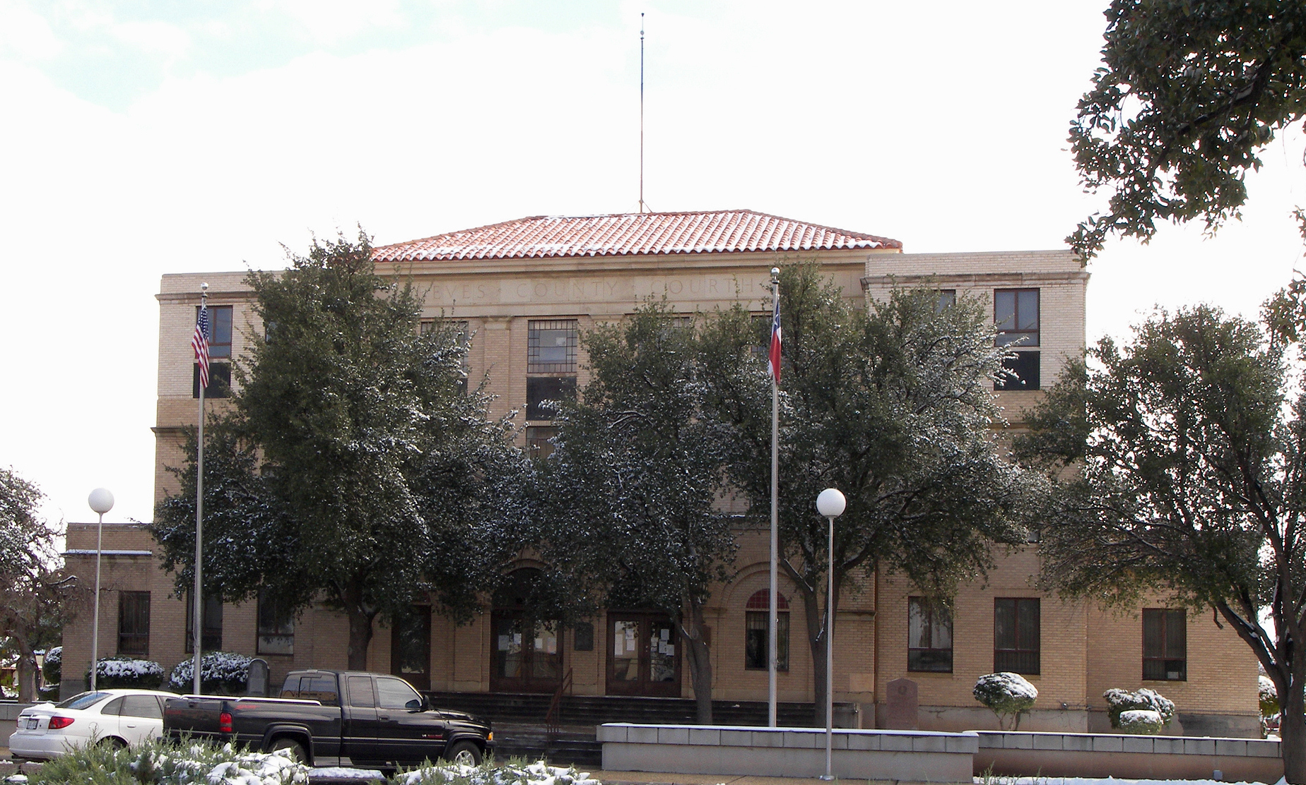 The Reeves County Courthouse located in Pecos, Texas, United States.